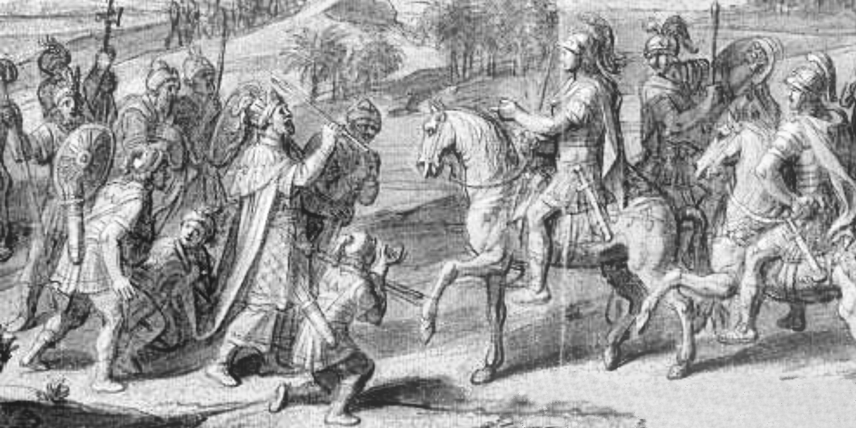 The Indian Rajah Sophites welcomes Alexander before the Gates of his Capital (Detail)